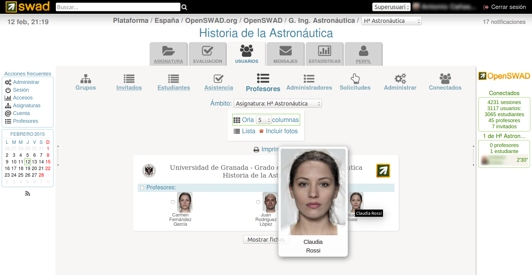 screenshot, 2015-02-12